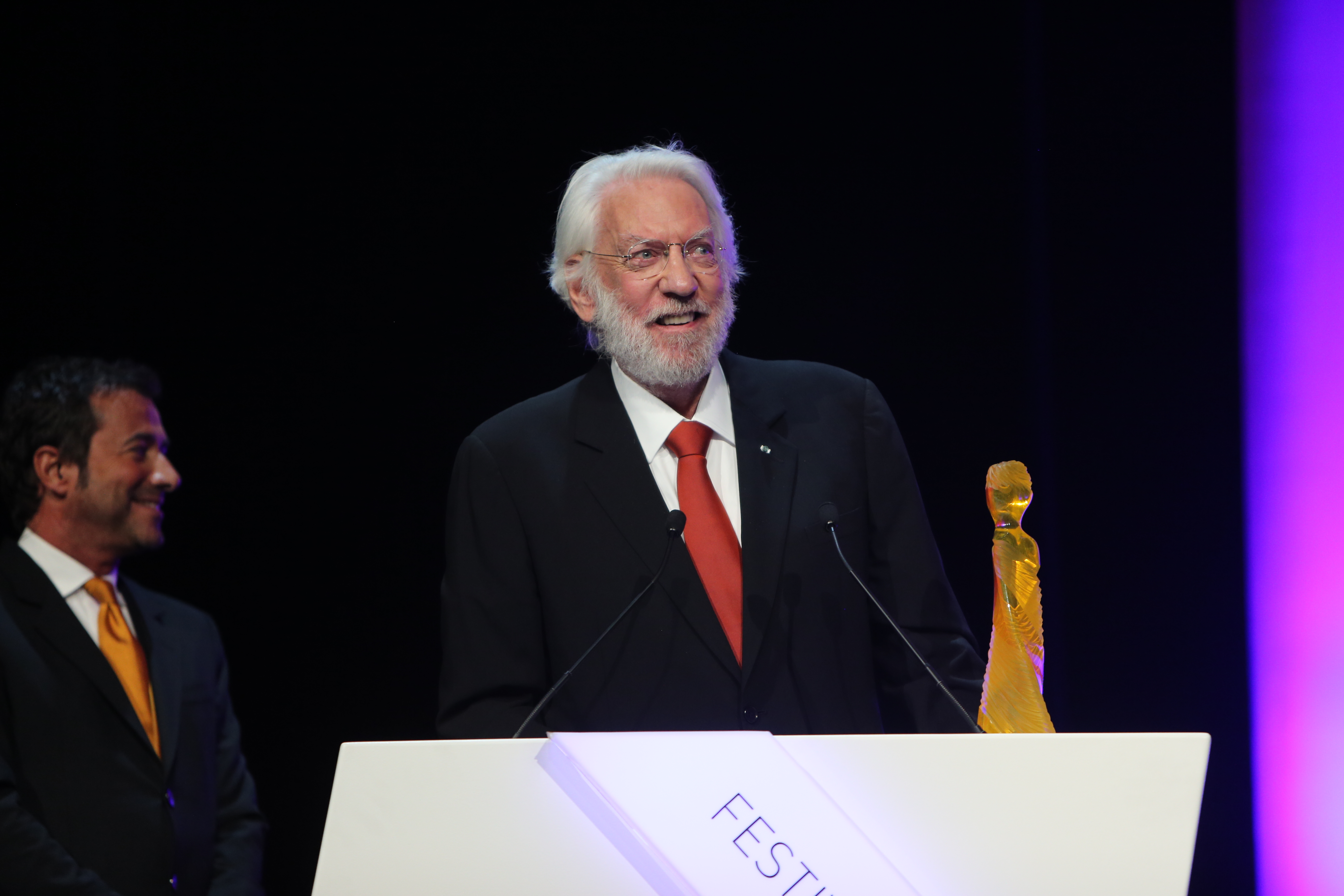 Donald Sutherland accepting the Crystal Nymph Award